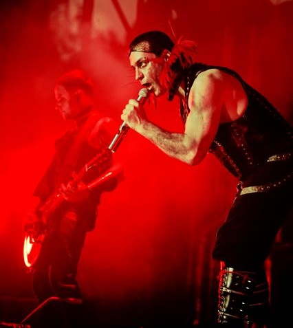 Till Lindemann _ live LIFAD Tour 2010